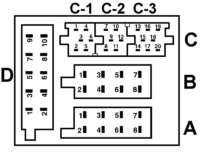 the connectors defined by ISO 10487 standard